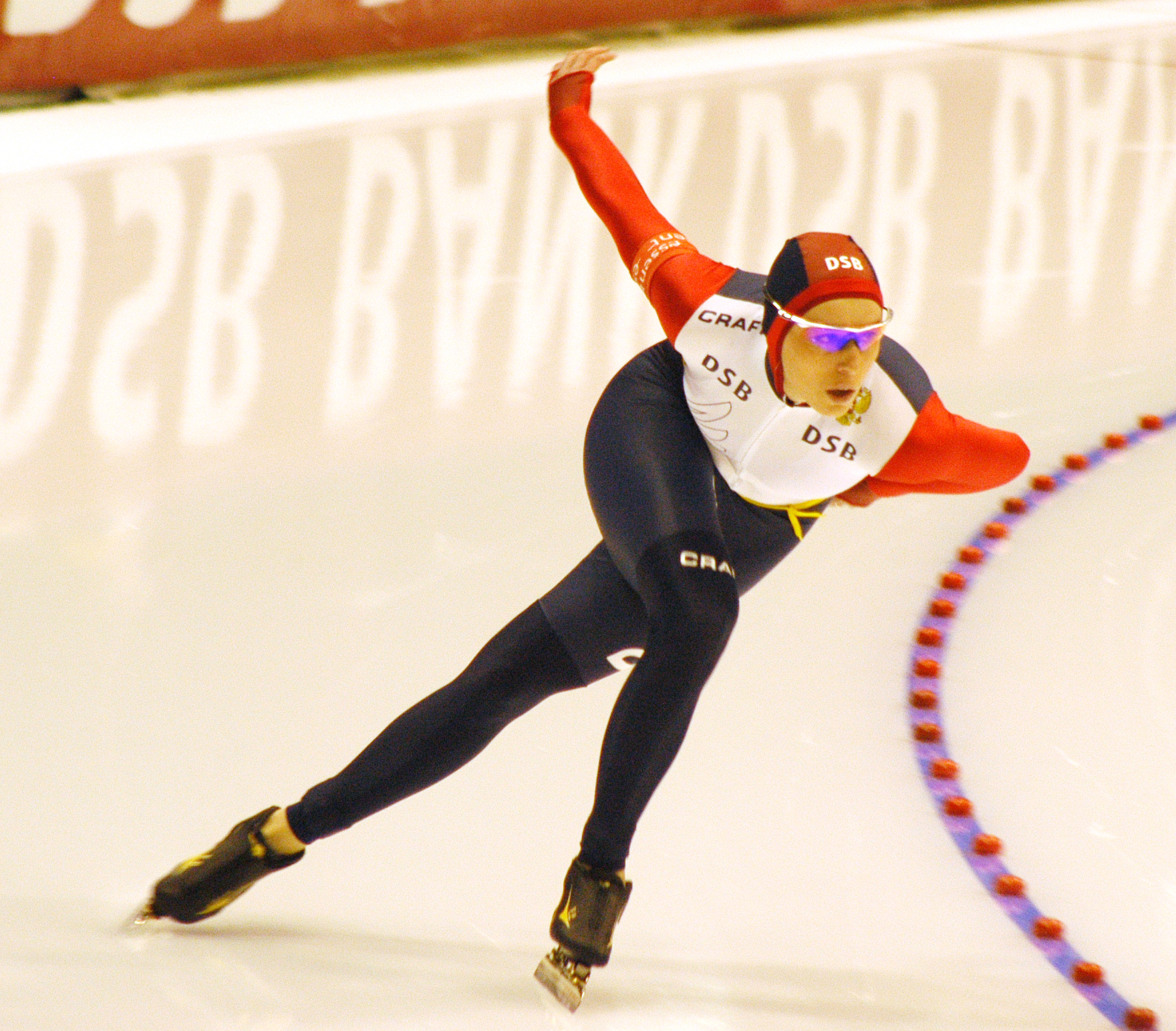 Yekaterina Lobysheva (RUS) during a 1500 meters world cup speedskating race in Heerenveen, the Netherlands.